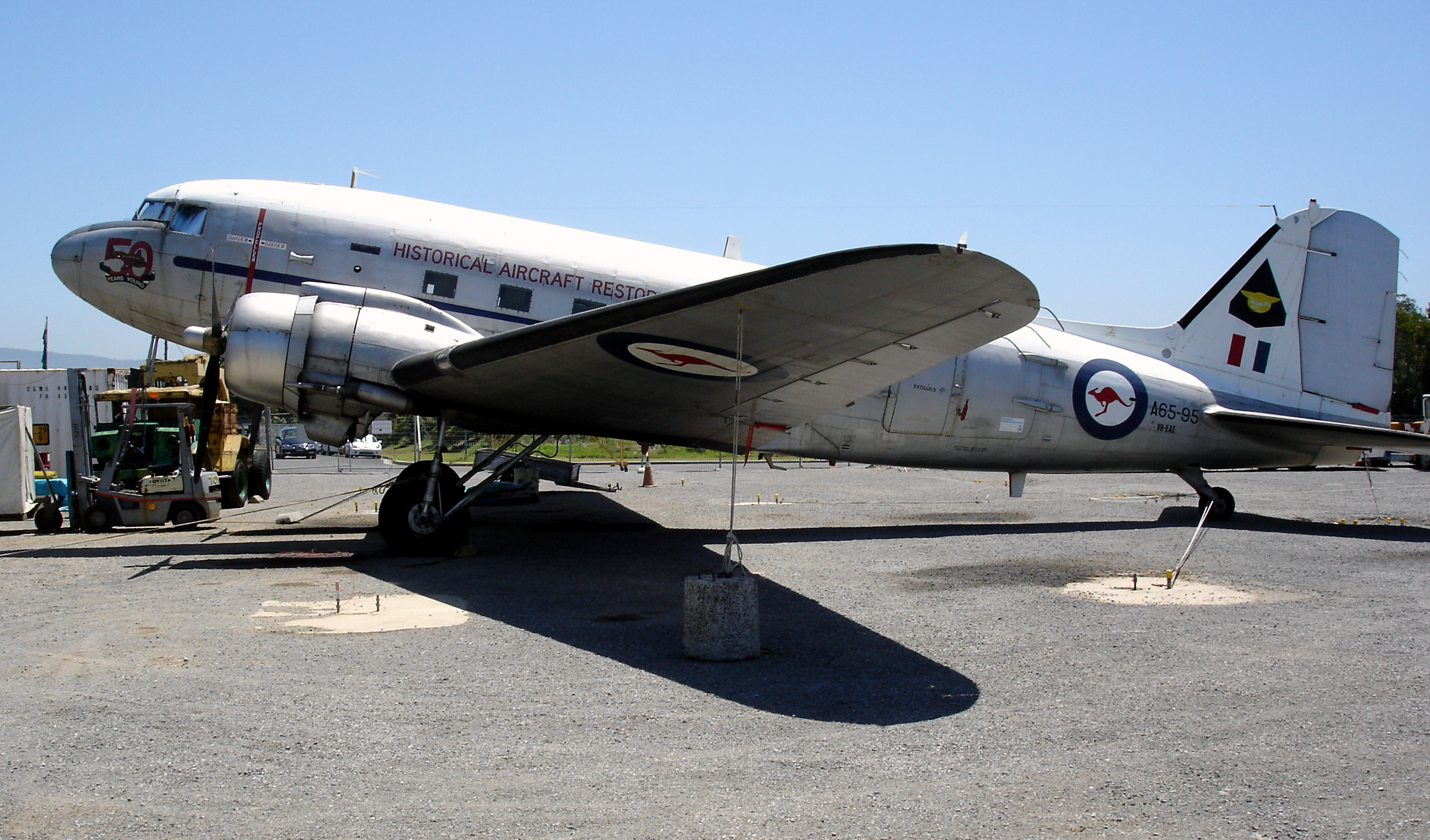 C-47 Skytrain, HARS Dakota, Wollongong, New South Wales